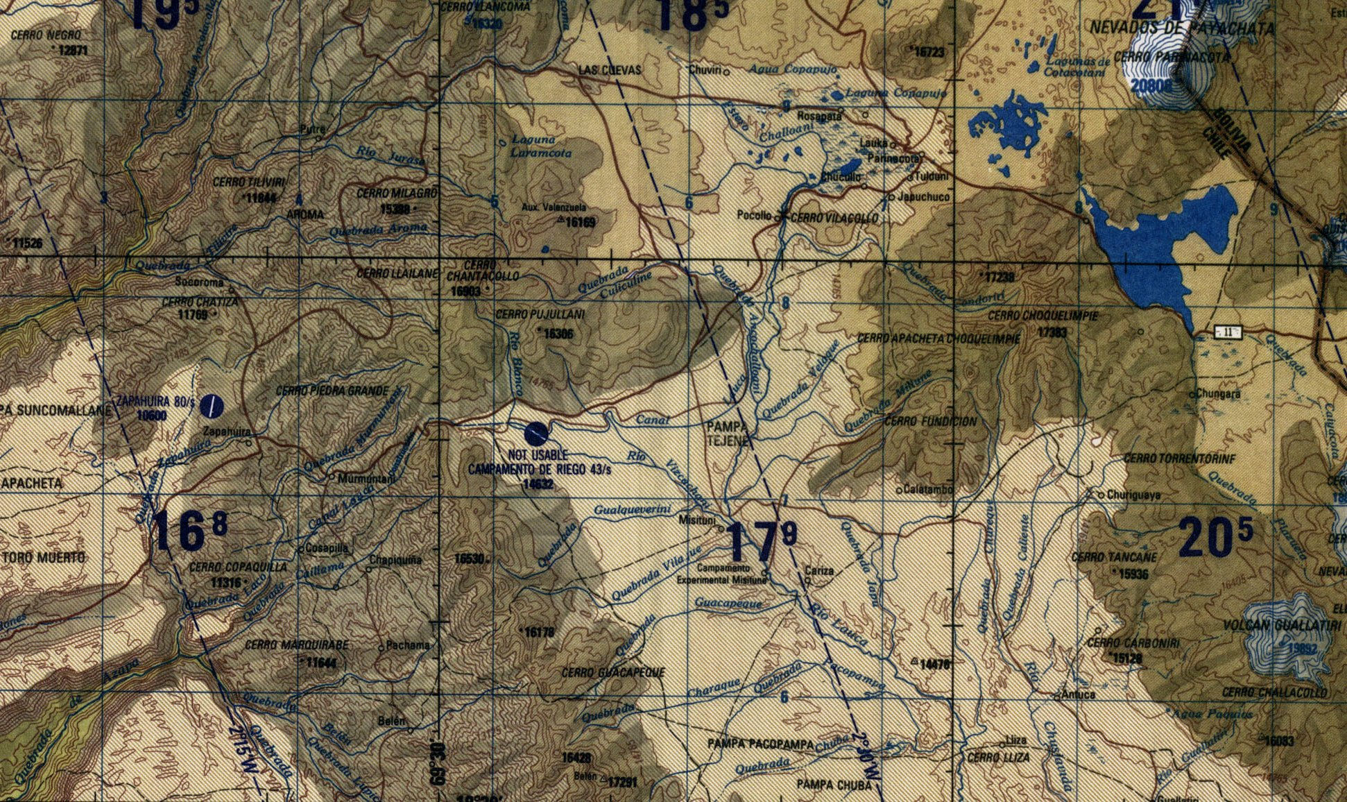 Canal Lauca, Río Lauca, Río Blanco, Río Viscachami, Nevados de Payachata, Parque Nacional Lauca, Chapiquiña, Volcán Guallatiri, Río Chusjavida